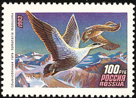 Stamp of Russia, Common eider (Somateria mollissima)